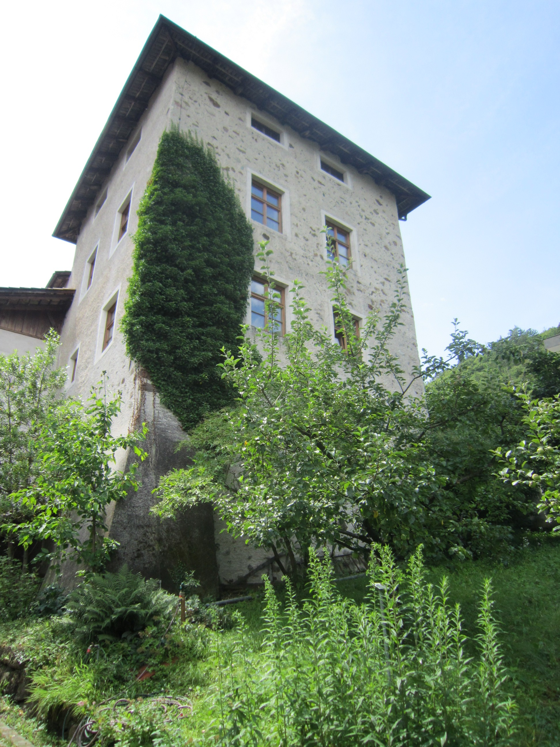 South Tyrolean Museum of Fruit-Growing in Larchgut Residence at Lana